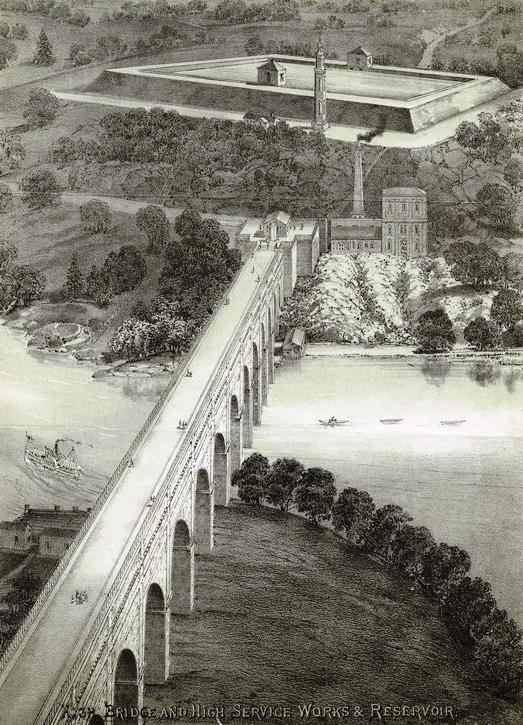 High Bridge and high service works & reservoir Image Title: High Bridge and high service works & reservoir. Alternate Title: High Bridge and high service works and reservoir. Published Date: 1871 Specific Material Type: Prints Item Physical Description: 1 print : col. ; 29 x 21 cm. (11 1/2 x 8 in.) Original Source: From New York City, Parks Department annual report. (New York : [s.n.] 1871) . Source: Mid-Manhattan Picture Collection / New York City -- water supply Source Description: 1 folder (33 pictures) Location: Mid-Manhattan Library / Picture Collection Catalog Call Number: PC NEW YC-Wat Digital ID: 810091 Record ID: 706056 Digital Item Published: 10-27-2005; updated 3-25-2011